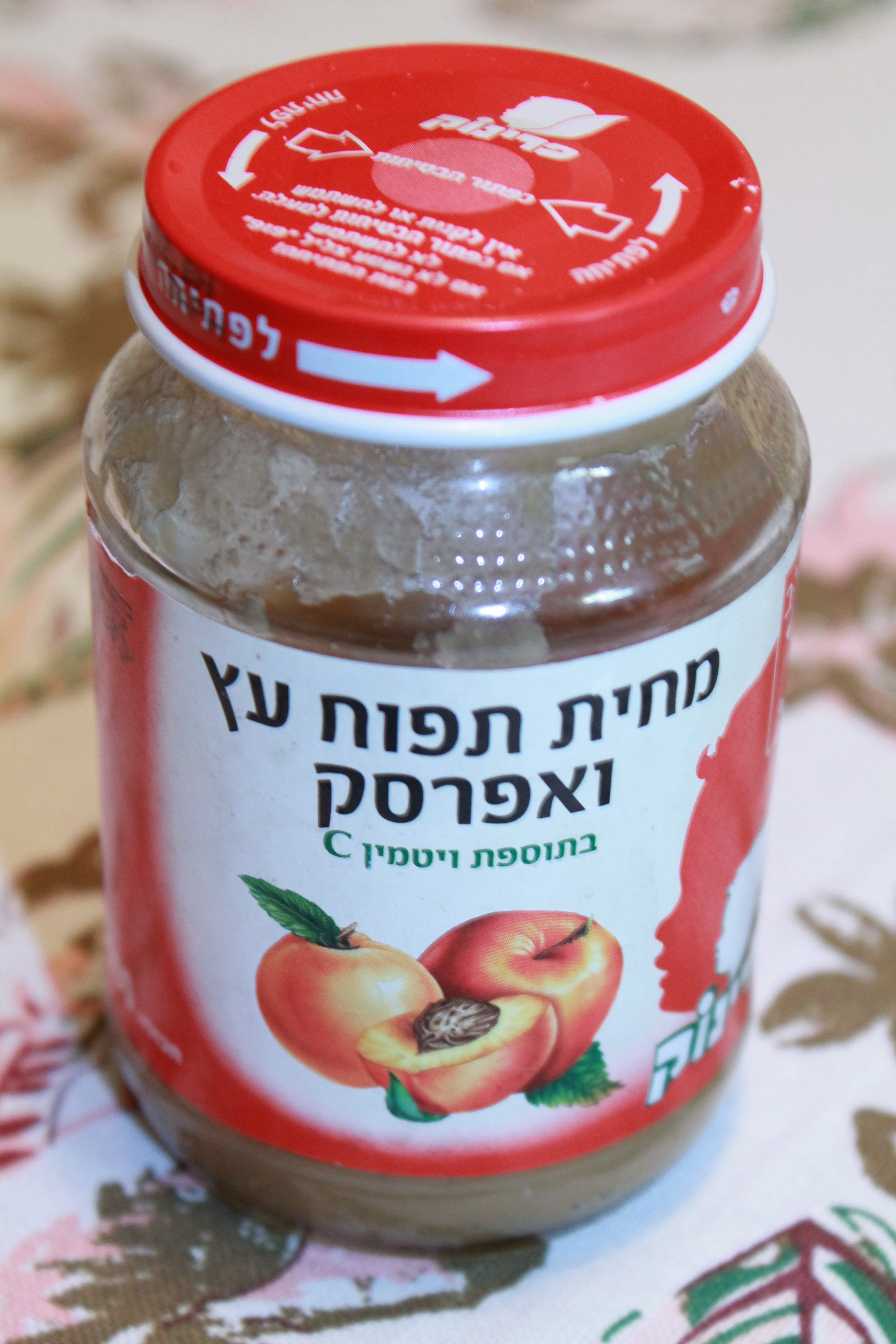 מזון לתינוקות